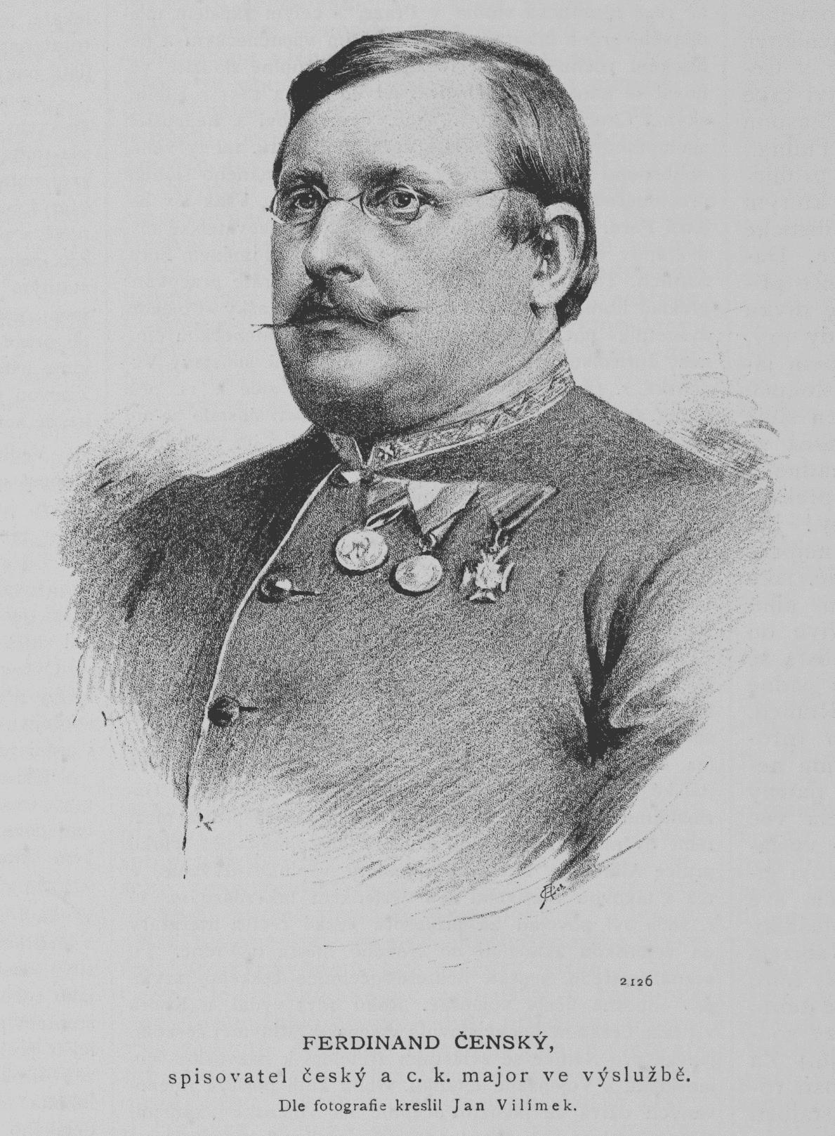 Portrait of Ferdinand Čenský (1829 - 1887), Czech officer in Austrian army, teacher of Czech language at a military college in Wiener Neustadt, journalist and historian.